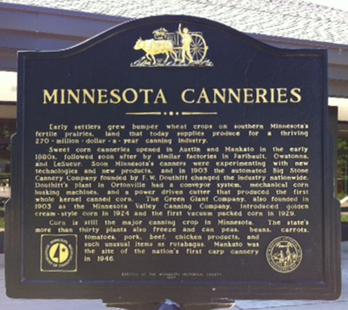 Historical marker about food canneries in Minnesota. It is at the southbound rest area at New Market, N 43° 59.178 W 093° 15.452.